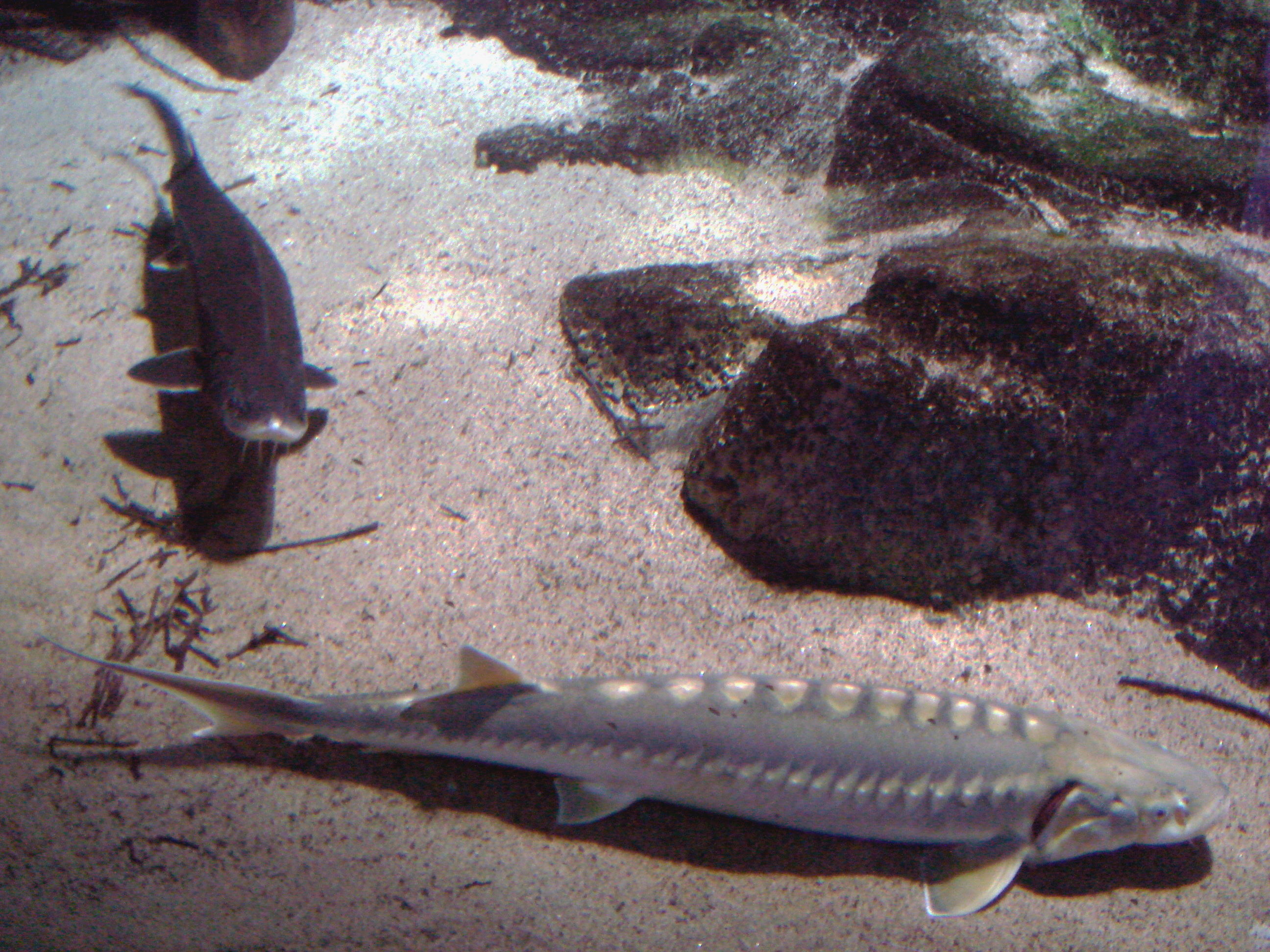 Acipenser Naccarii (sturgeon) at the Acquarium, Milan, Italy.